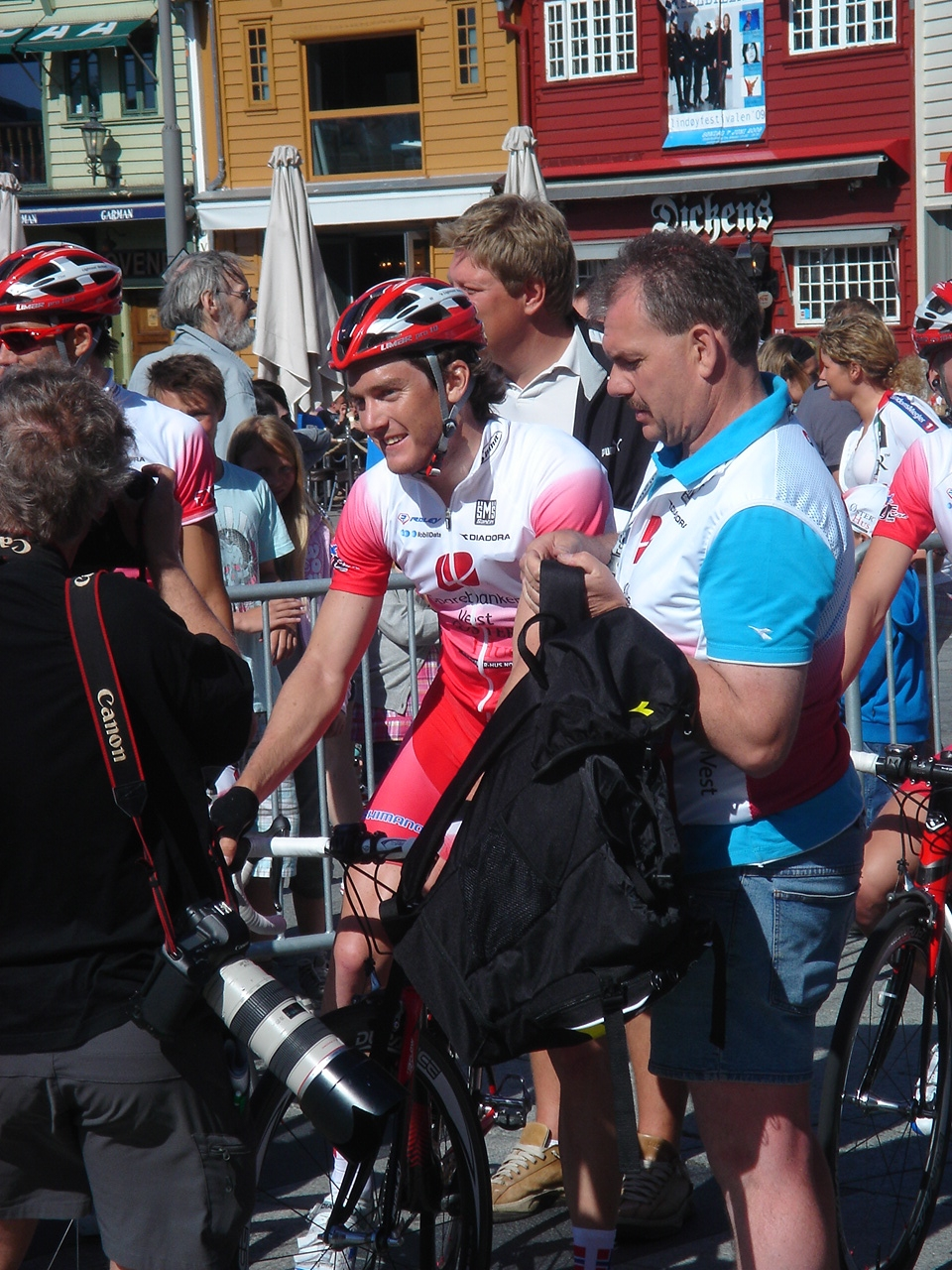 Håvard Nybø after vinning Rogaland Grand Prix 2009